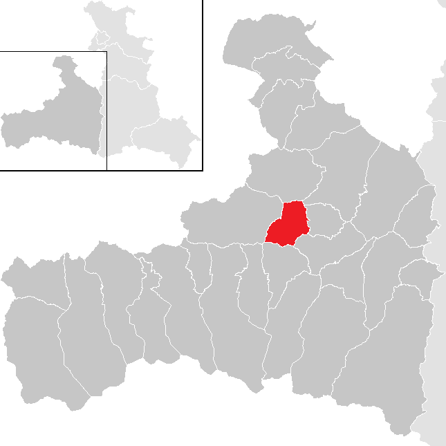 District Zell am See